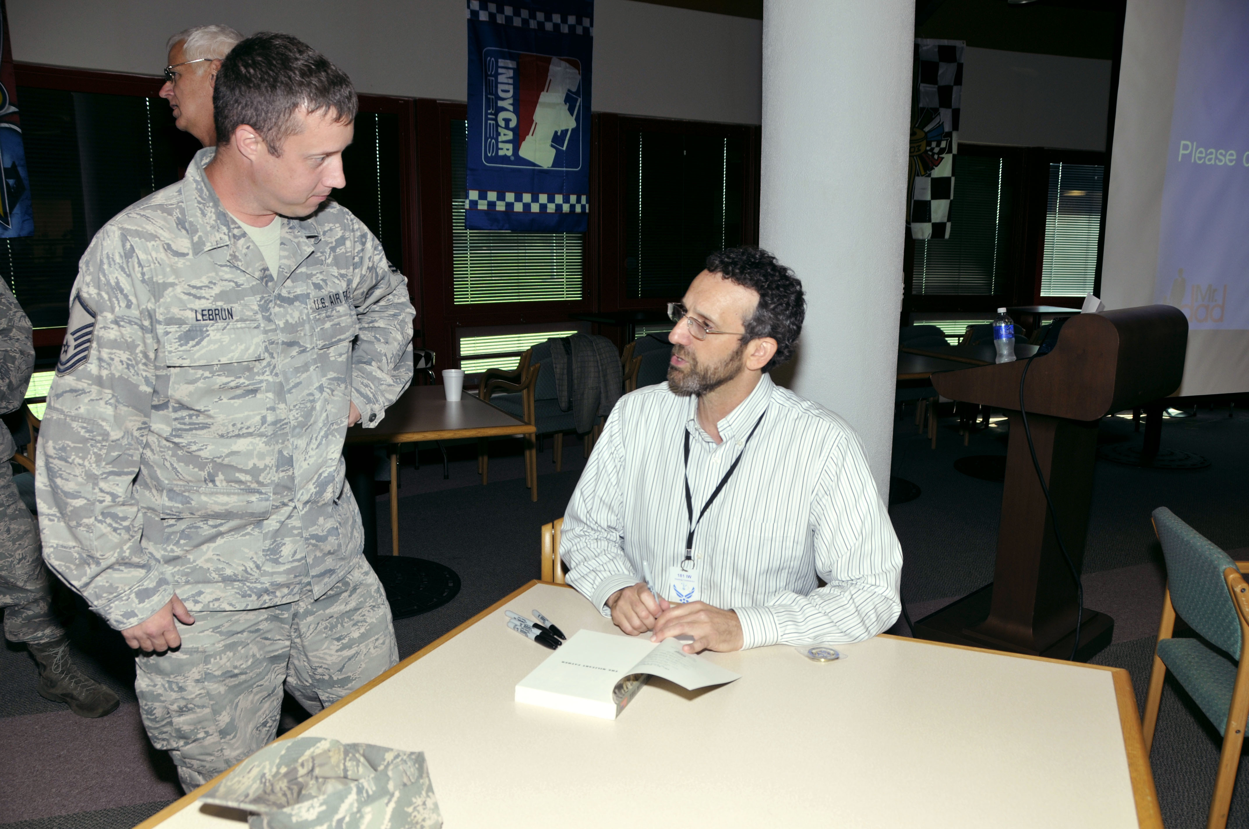 U.S. Air Force Master Sgt. Monty LeBrun, 181st Communications Flight, 181st Intelligence Wing, Indiana Air National Guard, talks with Mr. Armin A. Brott, retired U.S. Marine sergeant and author of the book “The Military Father,” Oct. 1, 2014, Hulman Field, Terre Haute, Ind. Brott took the time to autograph books to members of the 181st Intelligence Wing. (U.S. Air National Guard photo by Senior Master Sgt. John S. Chapman/Released) Unit: 181st Intelligence Wing DVIDS Tags: Air National Guard; ANG; Racers; Terre Haute; Indiana Air National Guard; Indiana; National Guard; 181st Intelligence Wing; 181st IW; 181 IW; 181IW; Hulman Field; 181 Intelligence Wing